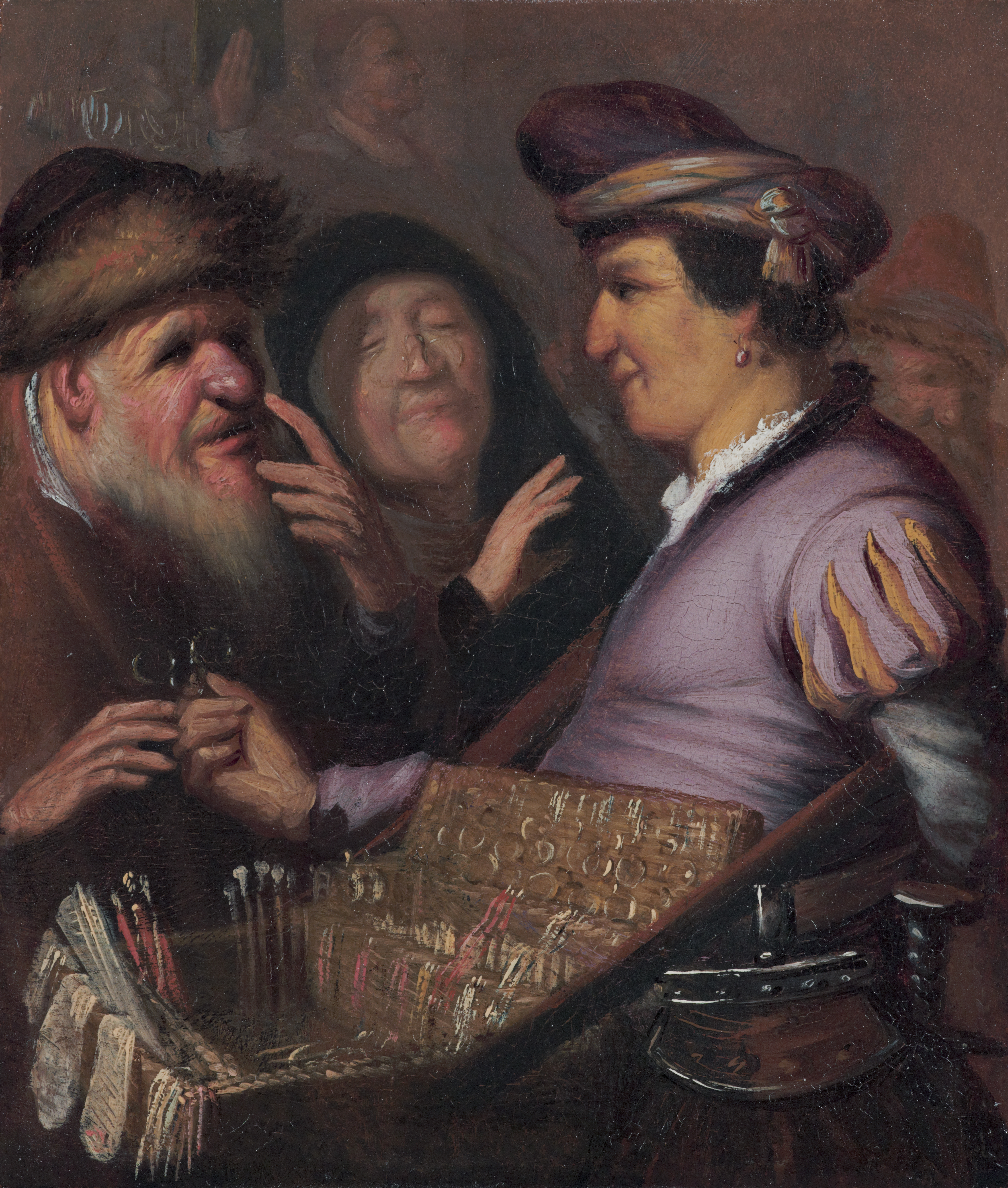 Sight oil on panel 21 x 17,8 cm 1624 - 1625